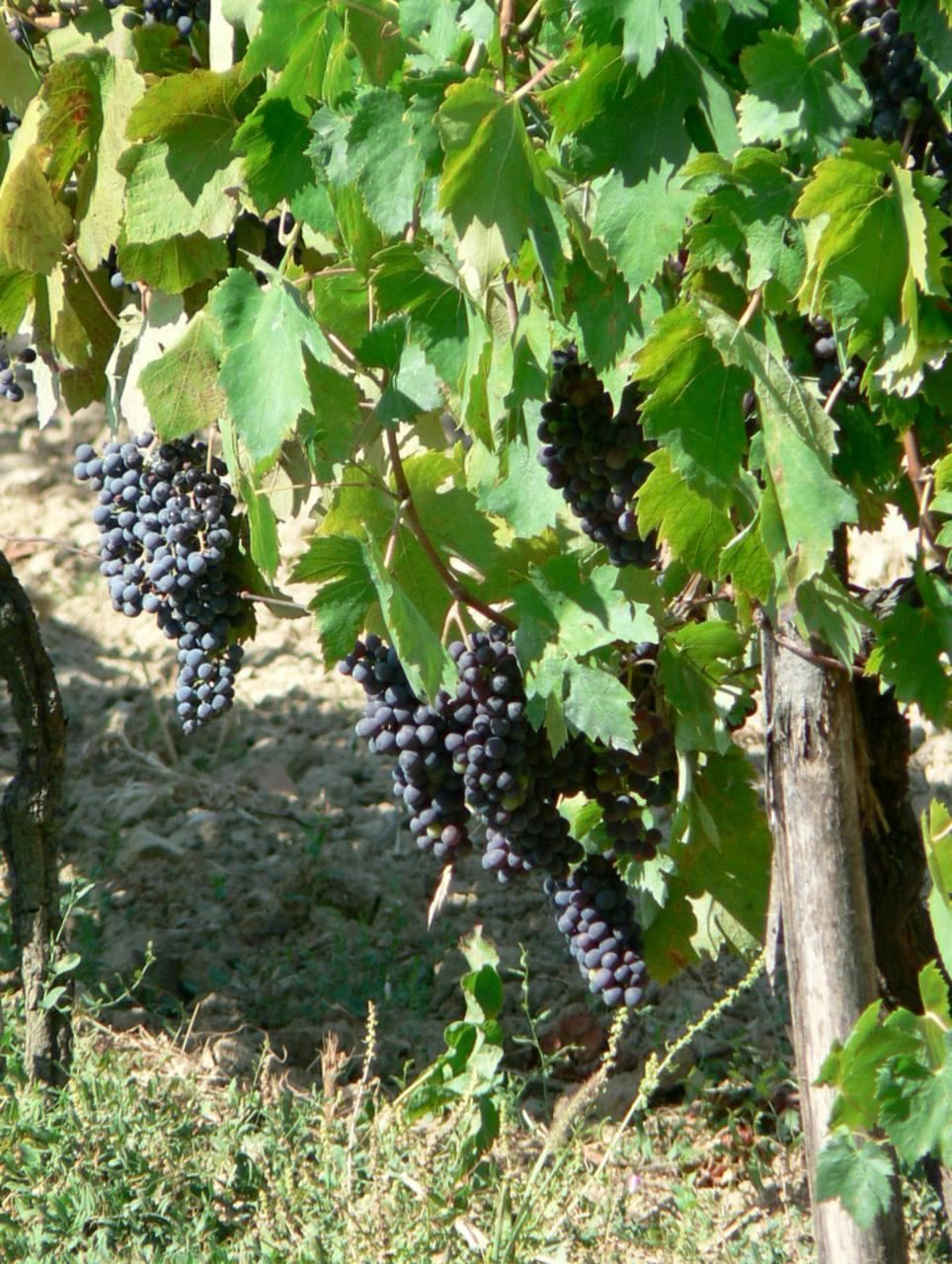 Image title: Blue grapes in vineyard Image from Public domain images website